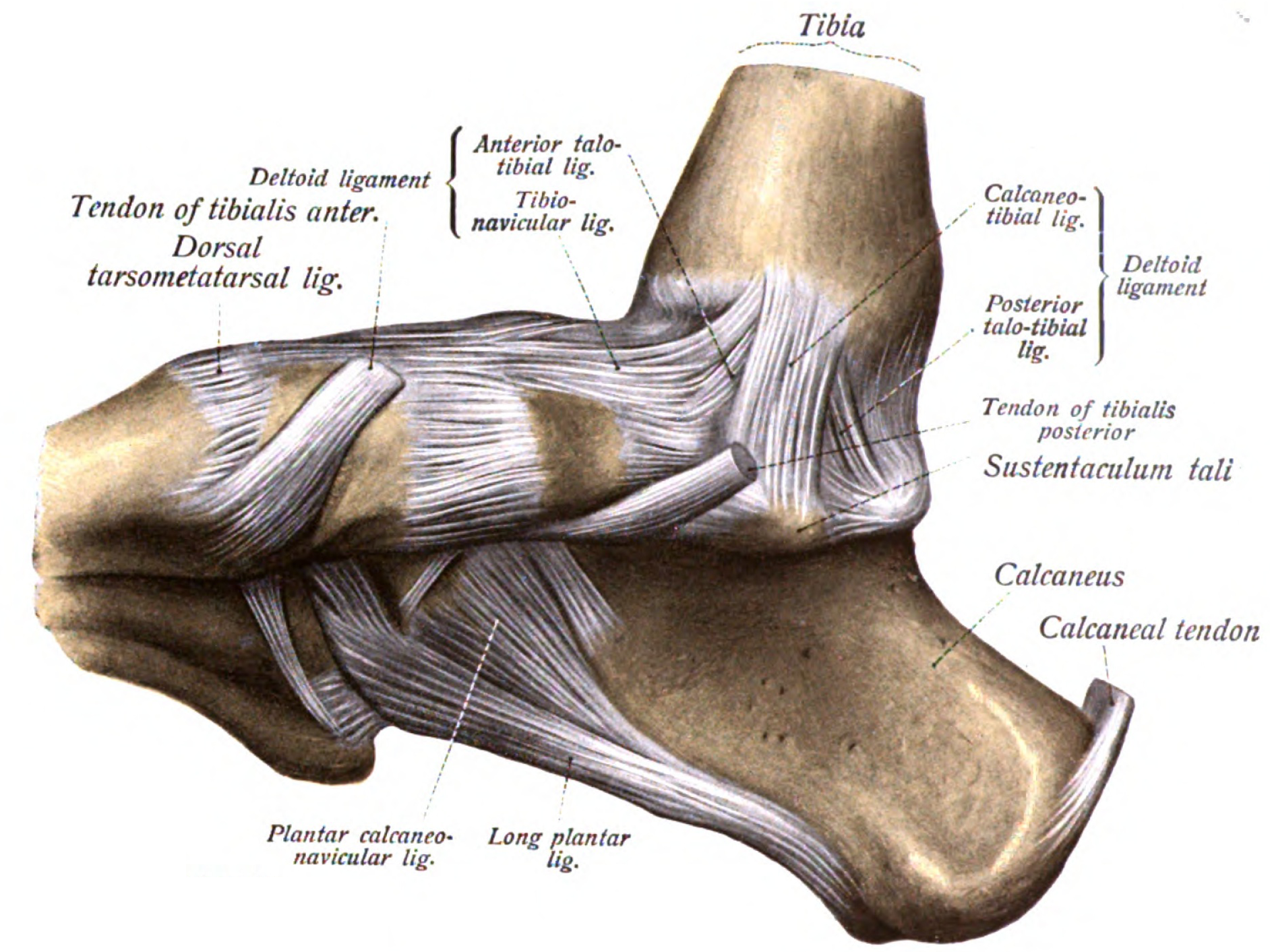 An anatomical illustration from the 1909 American edition of Sobotta's Atlas and Text-book of Human Anatomy with English terminology